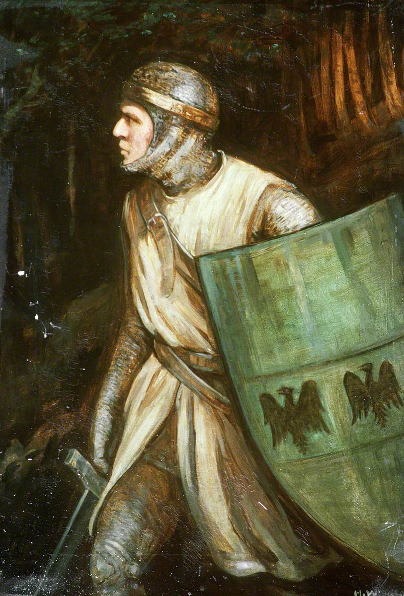 Artists impression of Owain Gwynedd